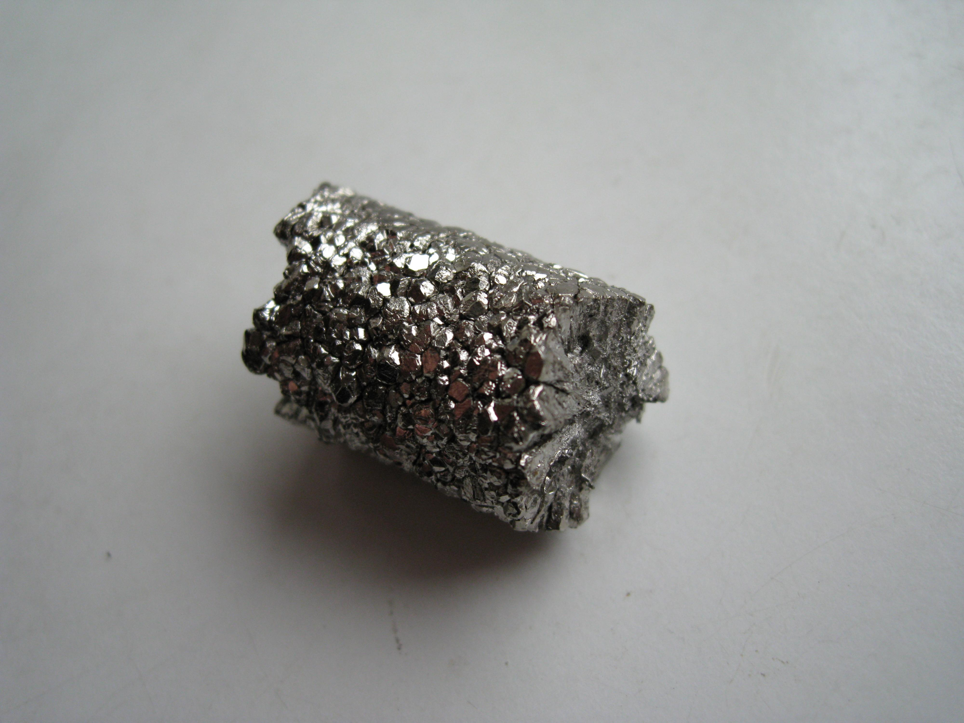 Hafnium crystalbar from the Dennis s.k collection.